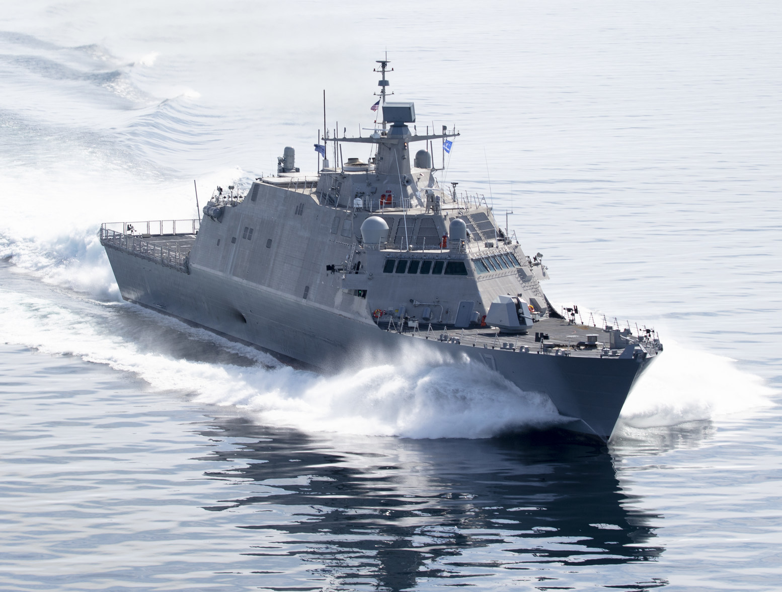 LCS 17 (Indianapolis) completed Acceptance Trials in Lake Michigan.